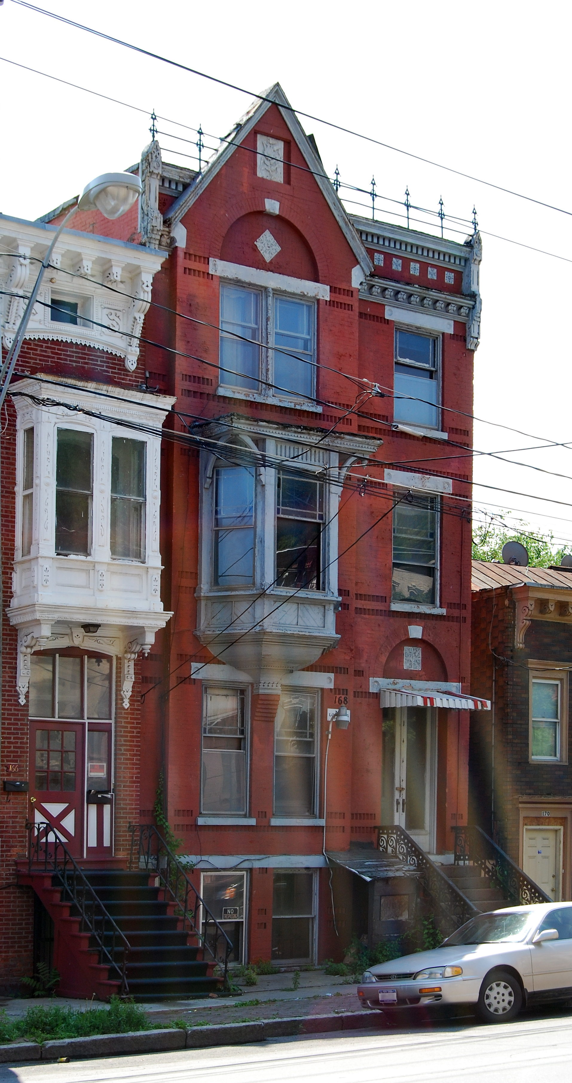 168 Clinton Avenue in Albany, New York, United States, part of the Clinton Avenue Historic District